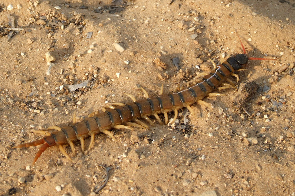 Scolopendra cingulata, a scolopendromorph centipede